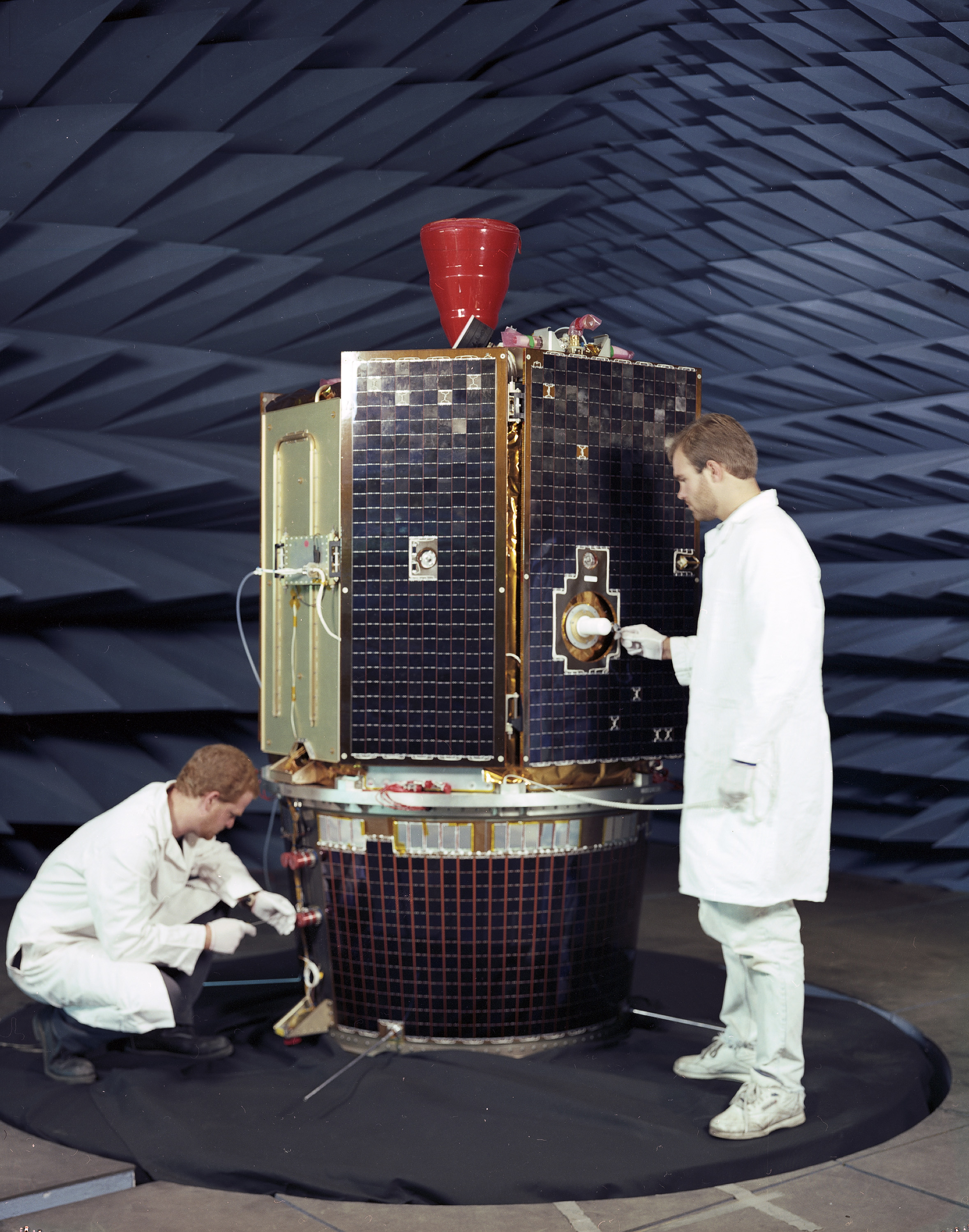 Clementine Lunar Orbiter (NASA) Downloaded from the NASA NSSDC website.